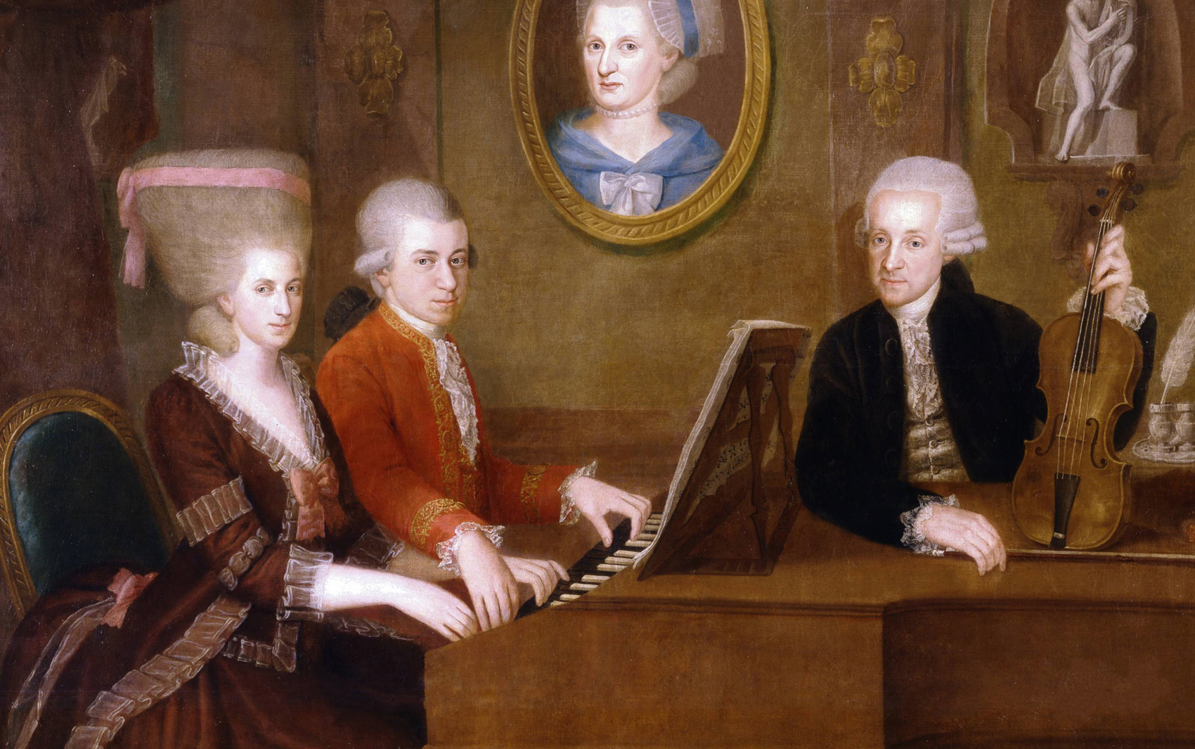 Family portrait: Maria Anna ("Nannerl") Mozart, her brother Wolfgang, their mother Anna Maria (medallion) and father, Leopold Mozart